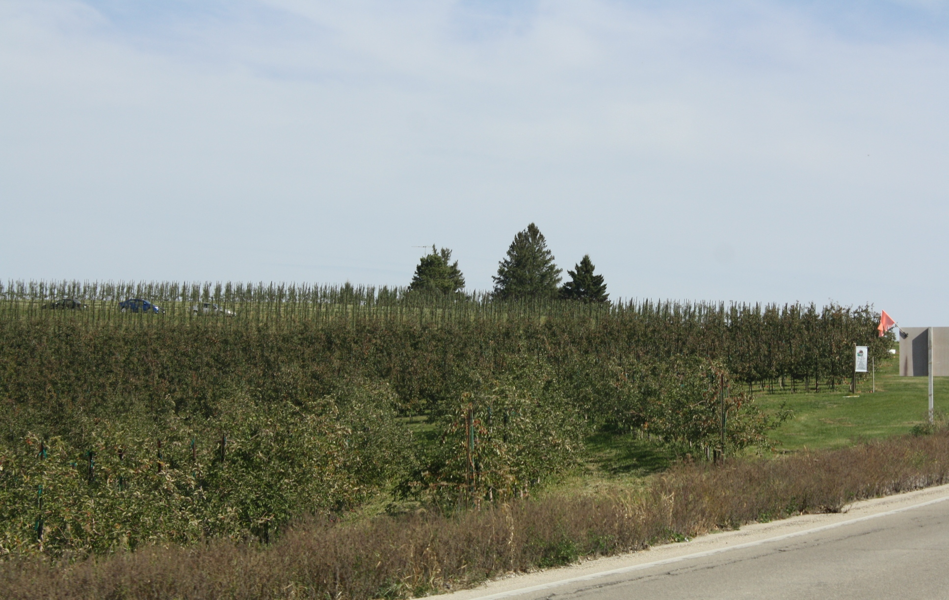 Apple orchards east of Gays Mills, Wisconsin along Wisconsin Highway 171.